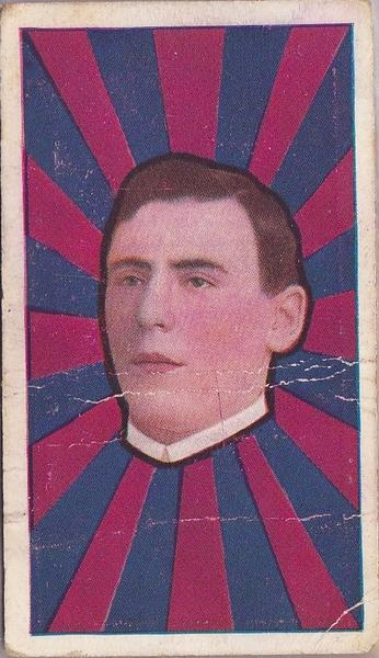 Cigarette card of Bob Rahilly from the 1911 Sniders & Abrahams series.